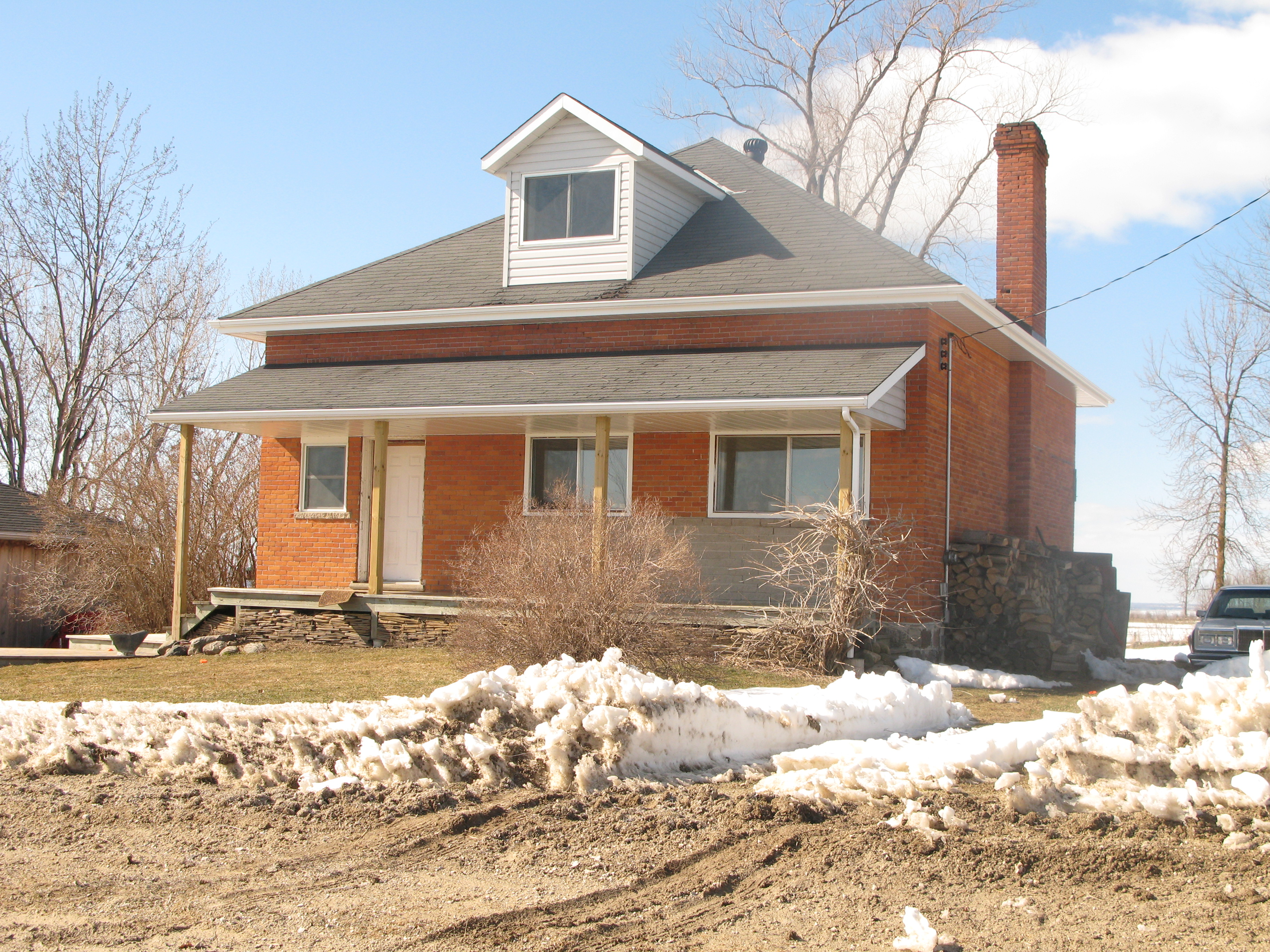 Balaclava, Ontario. Taken by Rebecca Scott on March 18, 2007.